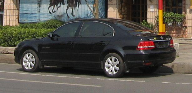 Shanghai VW Passat Lingyu (2009-current), rear view.